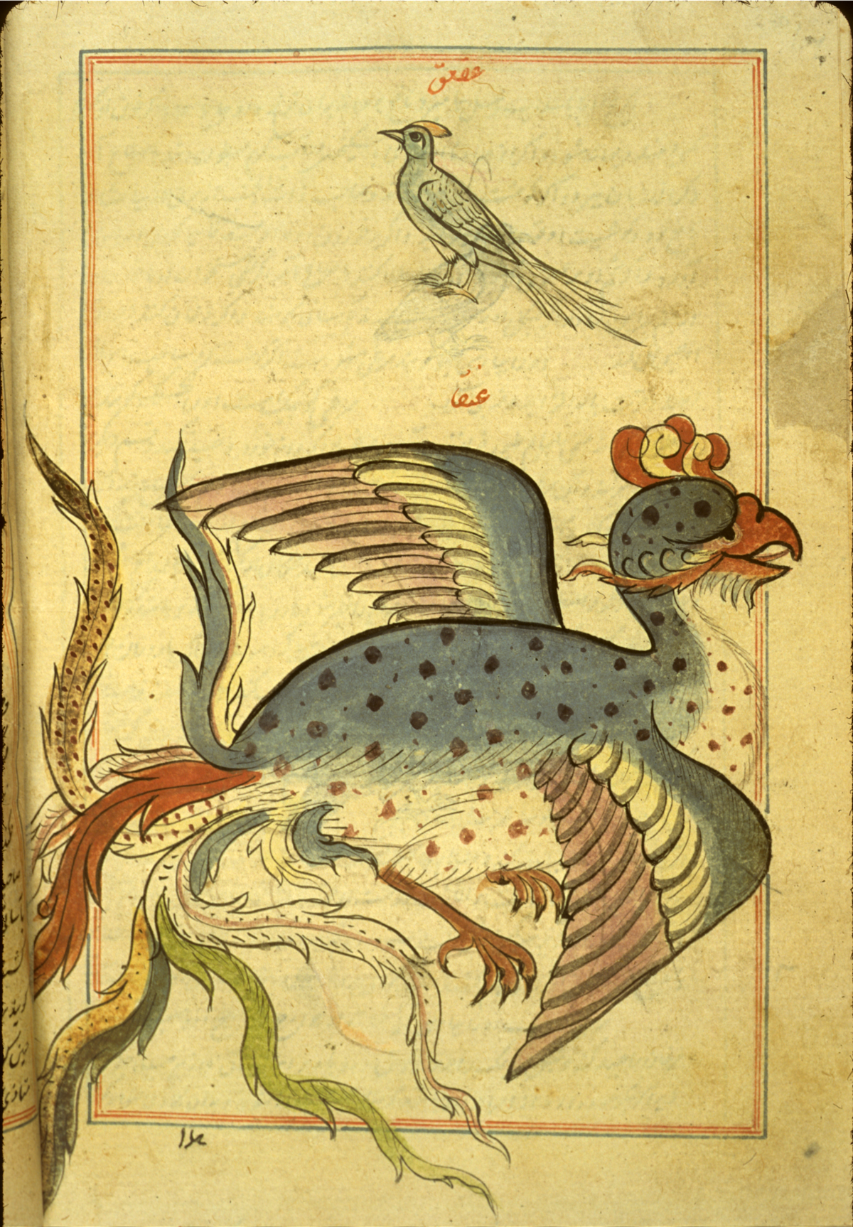 A simurgh (‘anqa') from al-Qazwini's Wonders of creation (ʿAjā'ib al-makhlūqāt wa gharā'ib al-mawjūdāt), NLM MS P 2, fol. 187b.